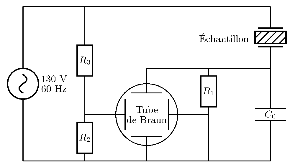 Sketch of the original circuit by Sawyer and Tower (1930). Values of the circuit elements are R1 = 450 kOhm, R2 = 3.18 kOhm, R3 = 31.8 kOhm, C0 = 0.7 µF.